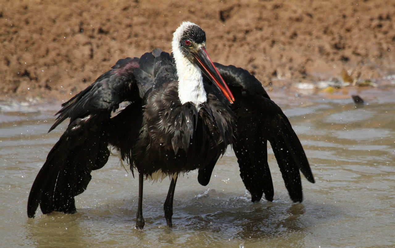 Woolly-necked stork, Bishop stork or White-necked stork, Ciconia episcopus, at uMkhuze Game Reserve, kwaZulu-Natal, South Africa - having a bath